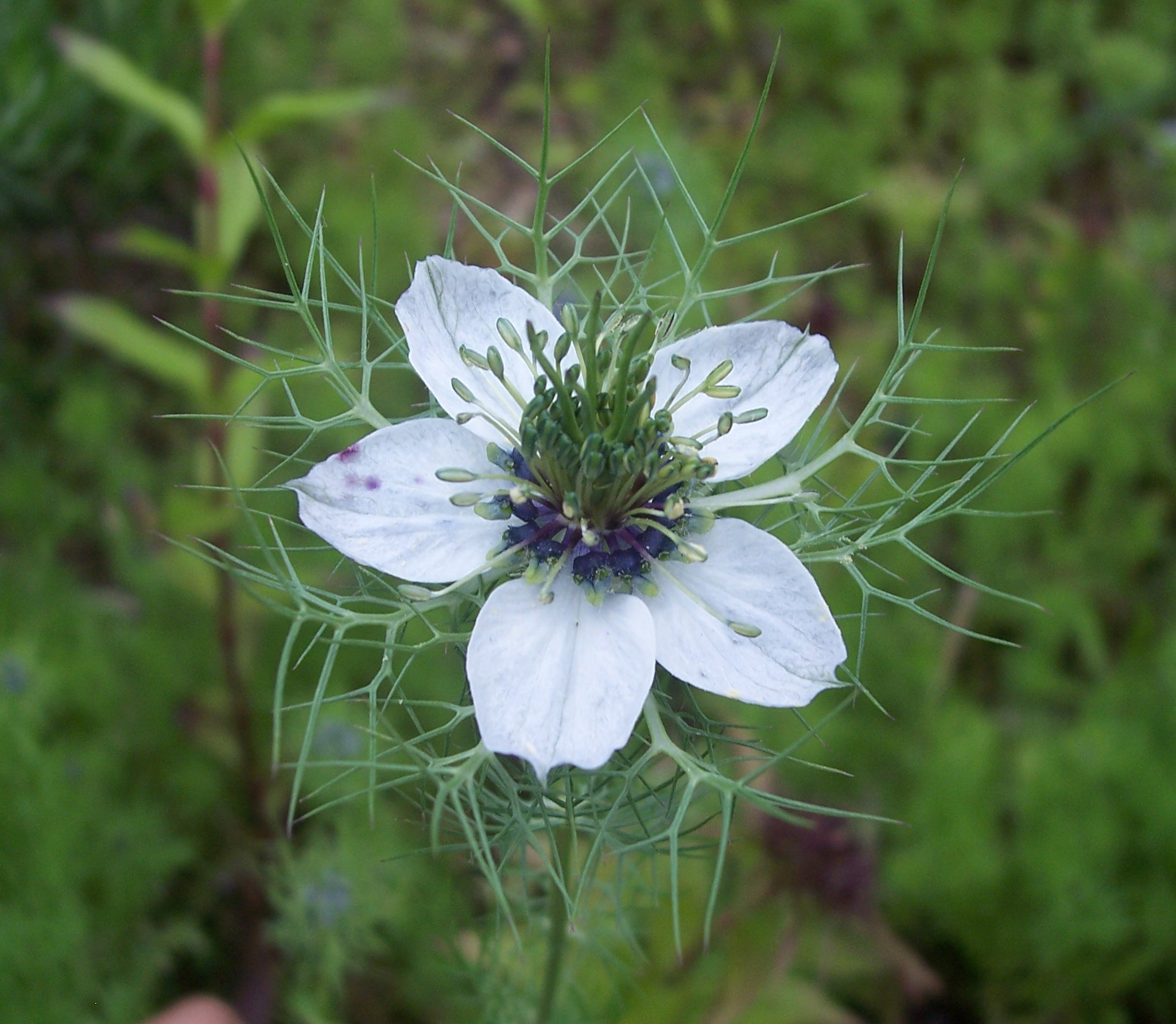 A flower from the Smithsonian gardens